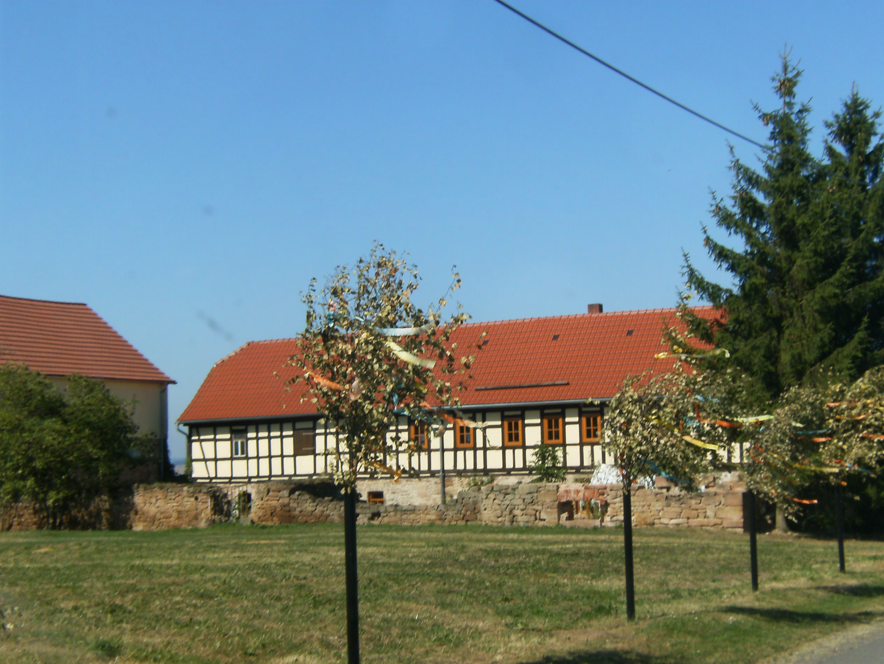 Großfalka, in the village.